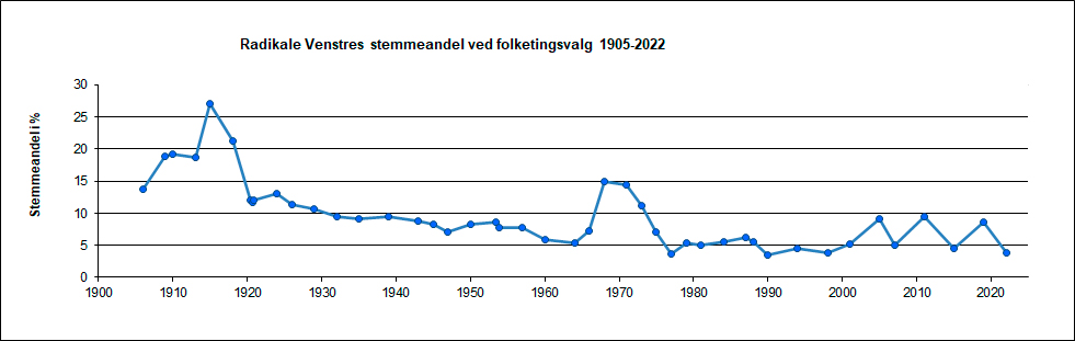 Bemærk at ved folketingsvalget i 1915 blev der i langt de fleste valgkredse afholdt fredsvalg. Derfor er stemmetallene ikke opgjort, men opgørelsen af stemmeandelen er i stedet baseret på mandatandelen: 31 af 114 mandater.